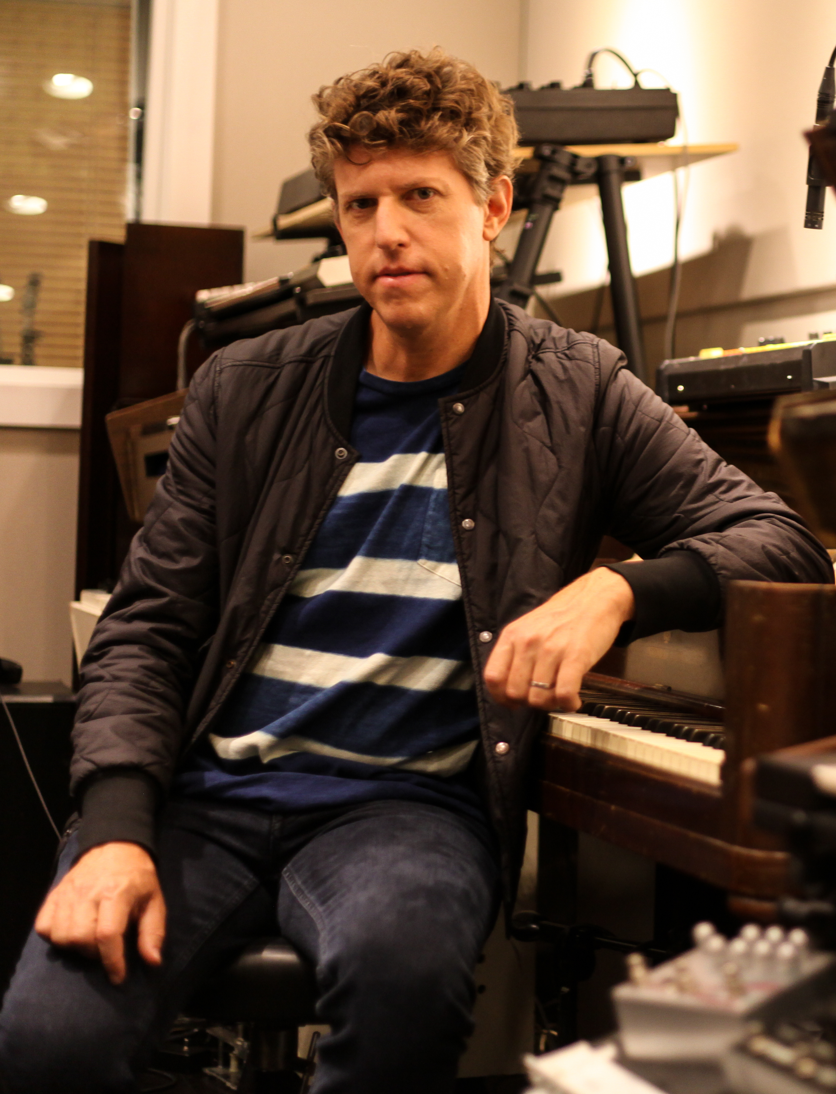 Producer Greg Kurstin at the board in 2017.